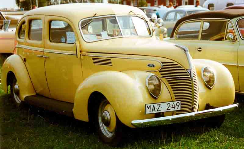 Ford Model 92A 73A Standard Fordor Sedan 1939